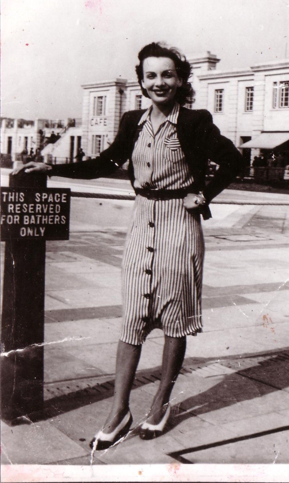 Rosamund Stanhope, c. 1947, standing by a sign.